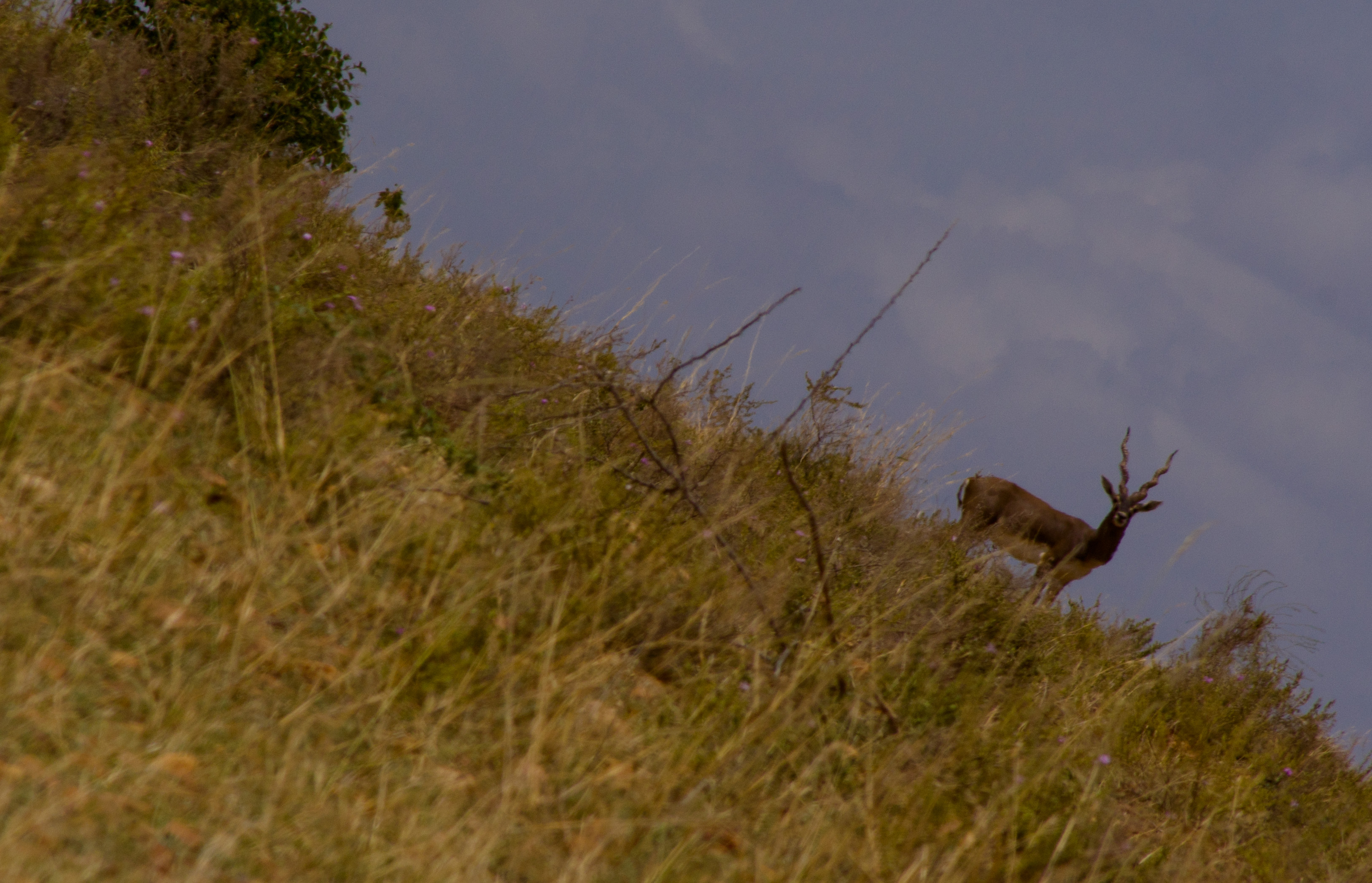 Black Buck at Jayamangala Black Buck Conservation , near Madhugiri , karnataka